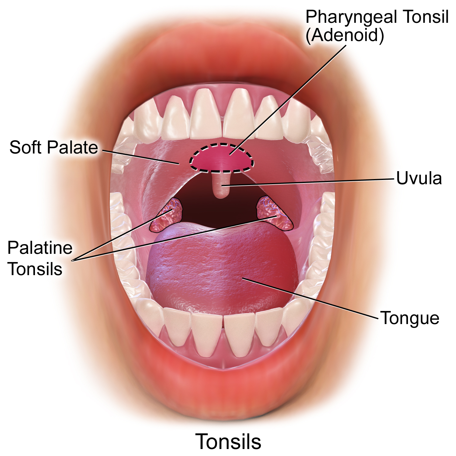 Tonsils. See a full animation of this medical topic.